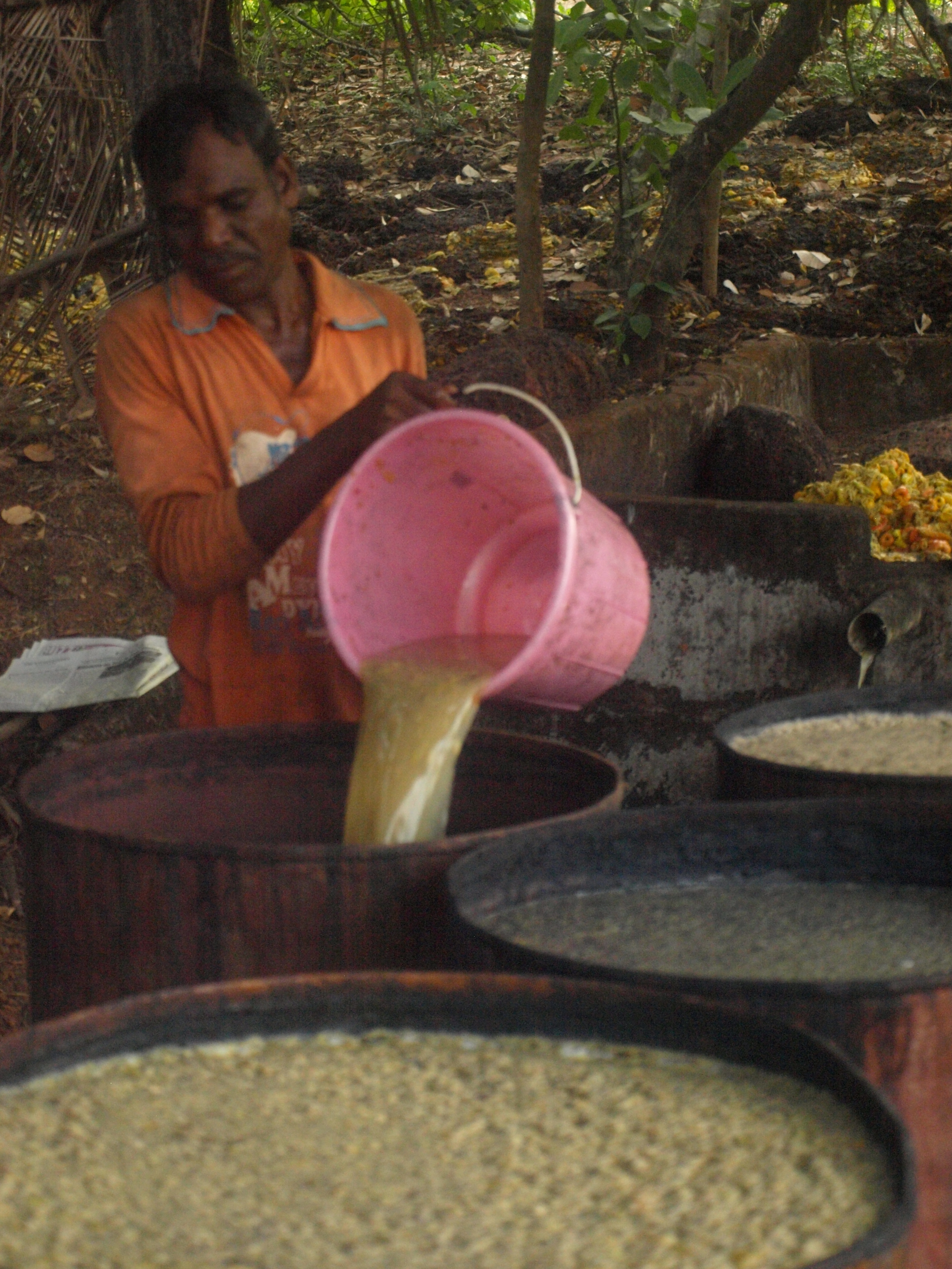 Photo by Frederick Noronha